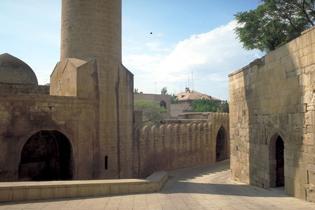 Iceri Sheher- Shirvansha's Palace I have made this picture in 2005